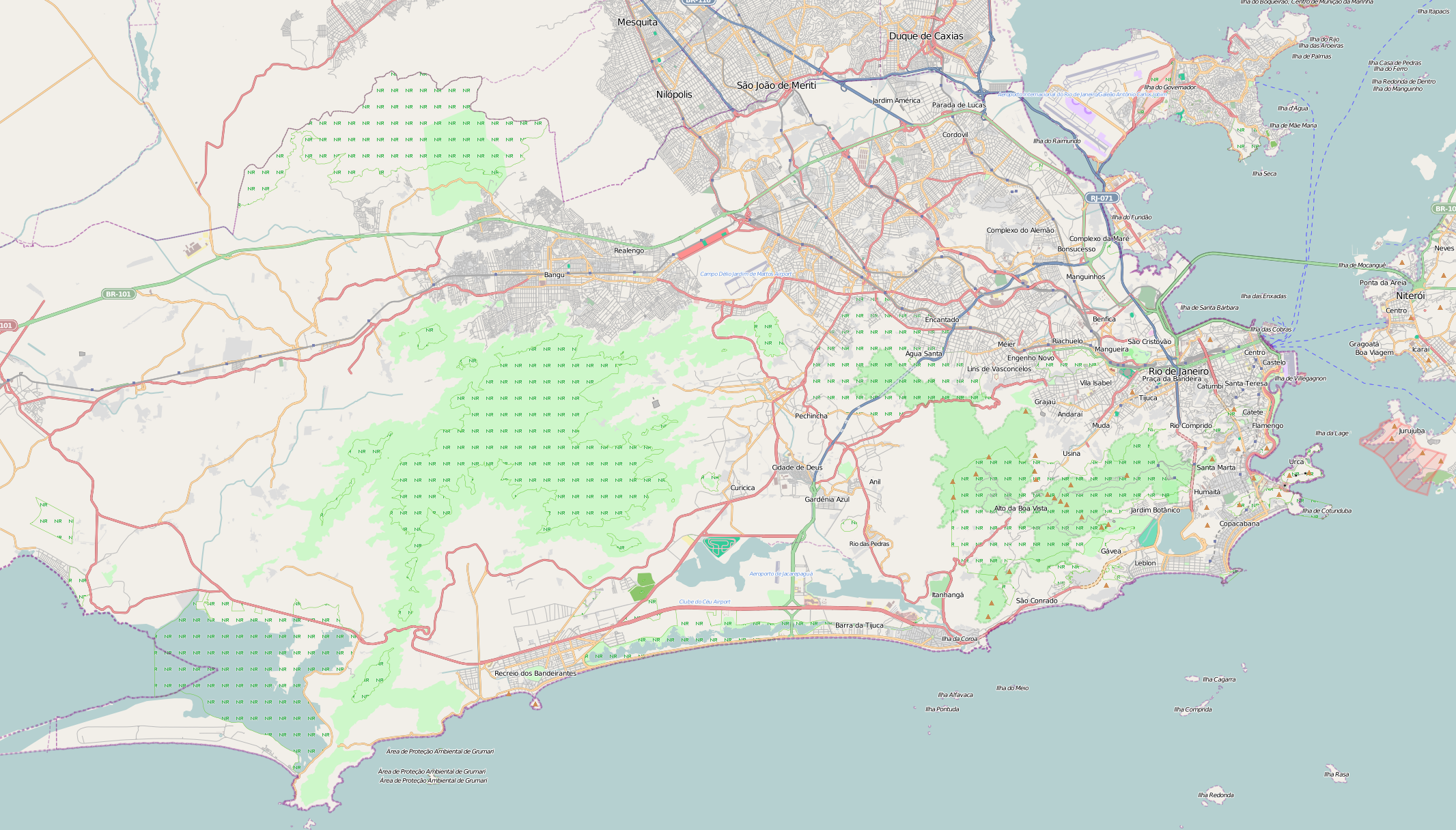 Map of the city of Rio de Janeiro, Brazil.